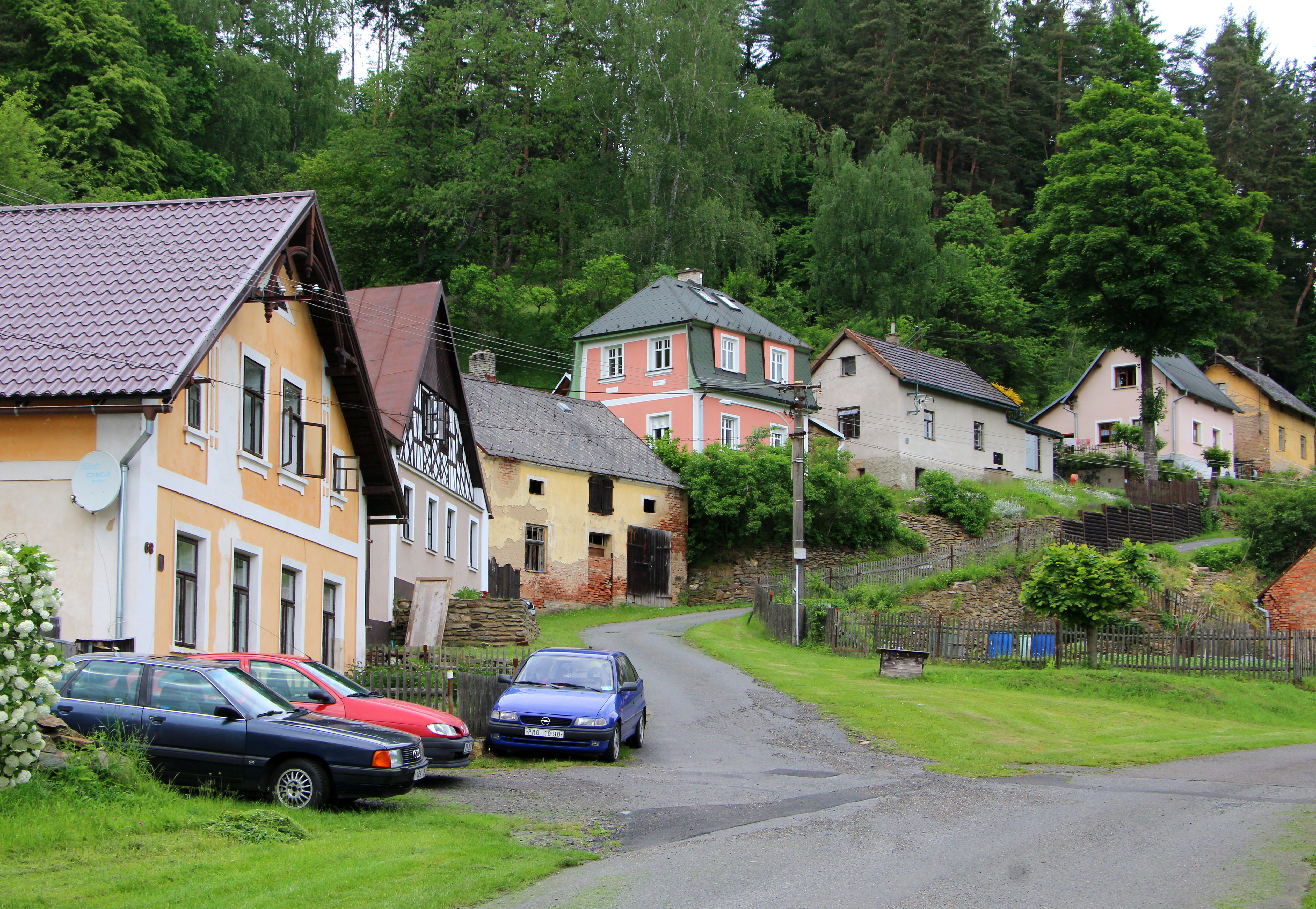 North part of Michalovy Hory, part of Chodová Planá, Czech Republic.